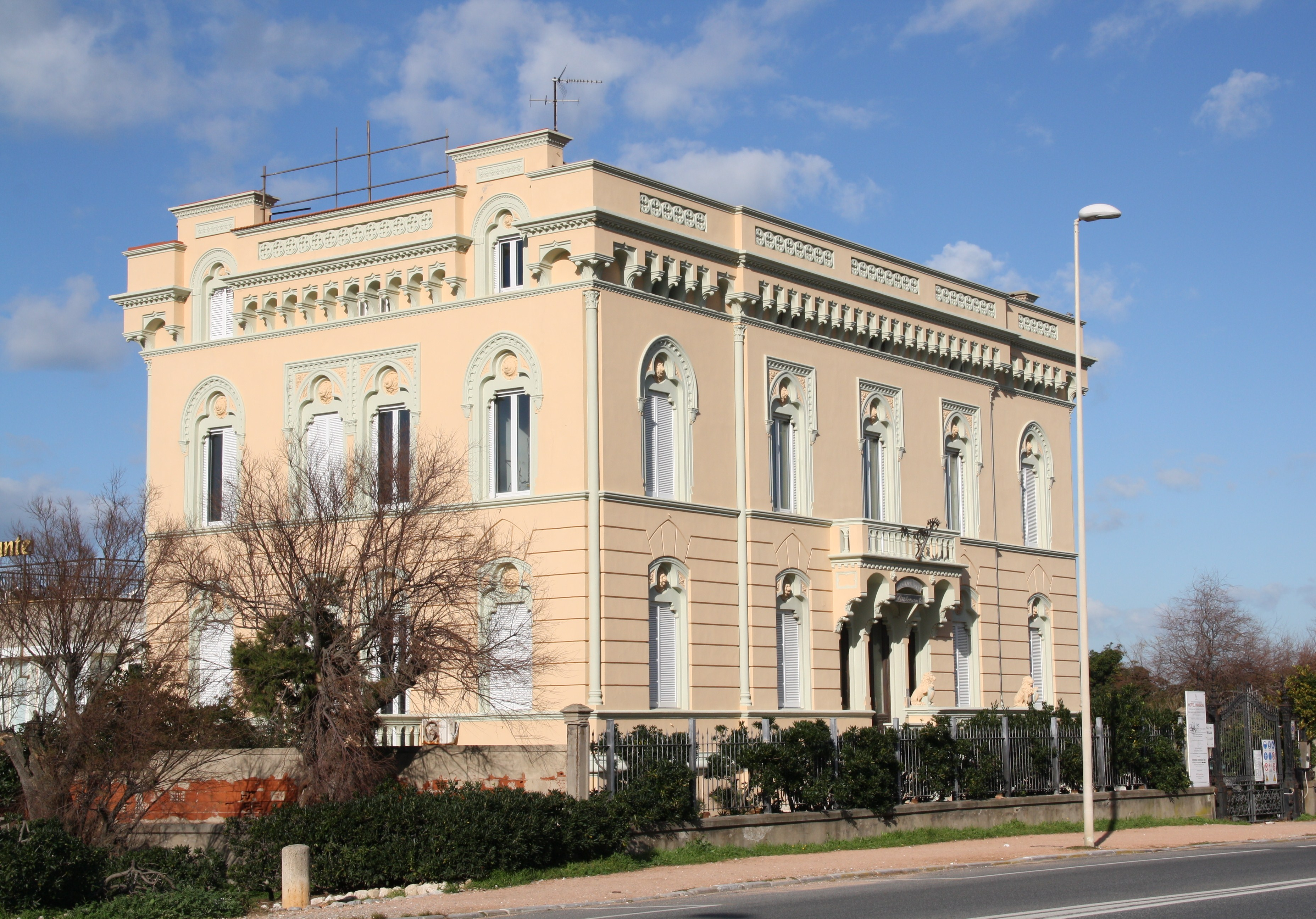 Italy Livorno, Viale di Antignano, Villa Chayes. It is one of the few Villas built on the sea side of “Viale di Antignano”. Built in the mid-ninteenth century by Ferdinando Bini as a farmhouse was sold to Campari Pietro on October 12, 1888. In 1904 was bought by Baldini Eugenio and Carpena Giuseppe and on February 17, 1906 sold to Adolfo and Guido Chayes from which the villa is named. The villa was restored in false goyhic style as it appear nowadays transformed in Hotel.